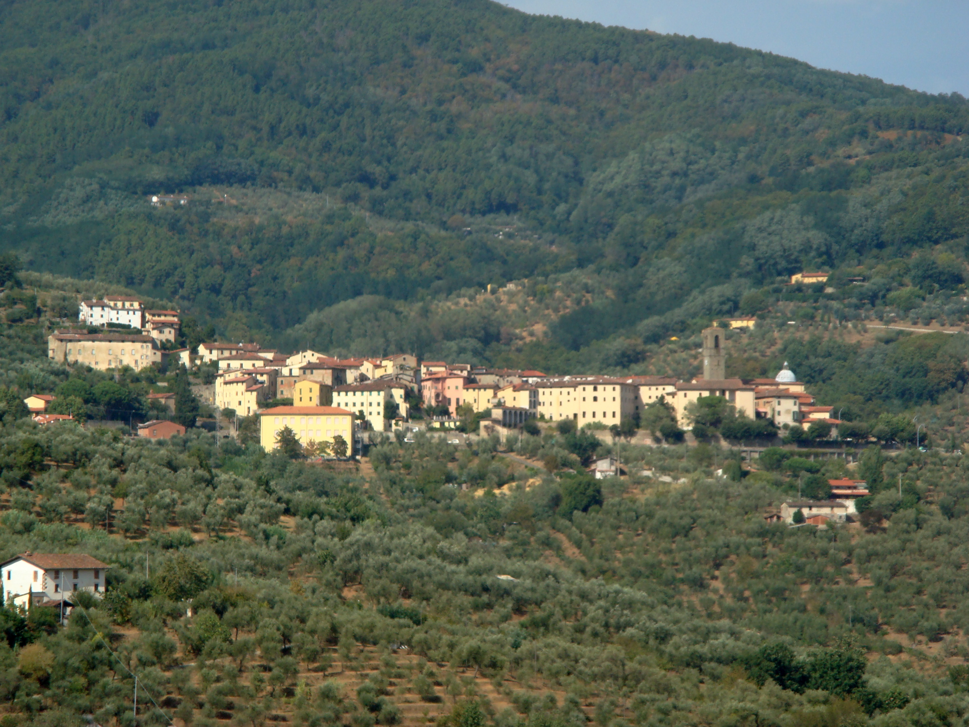 Panorama of Massa taken from Colle di Buggiano